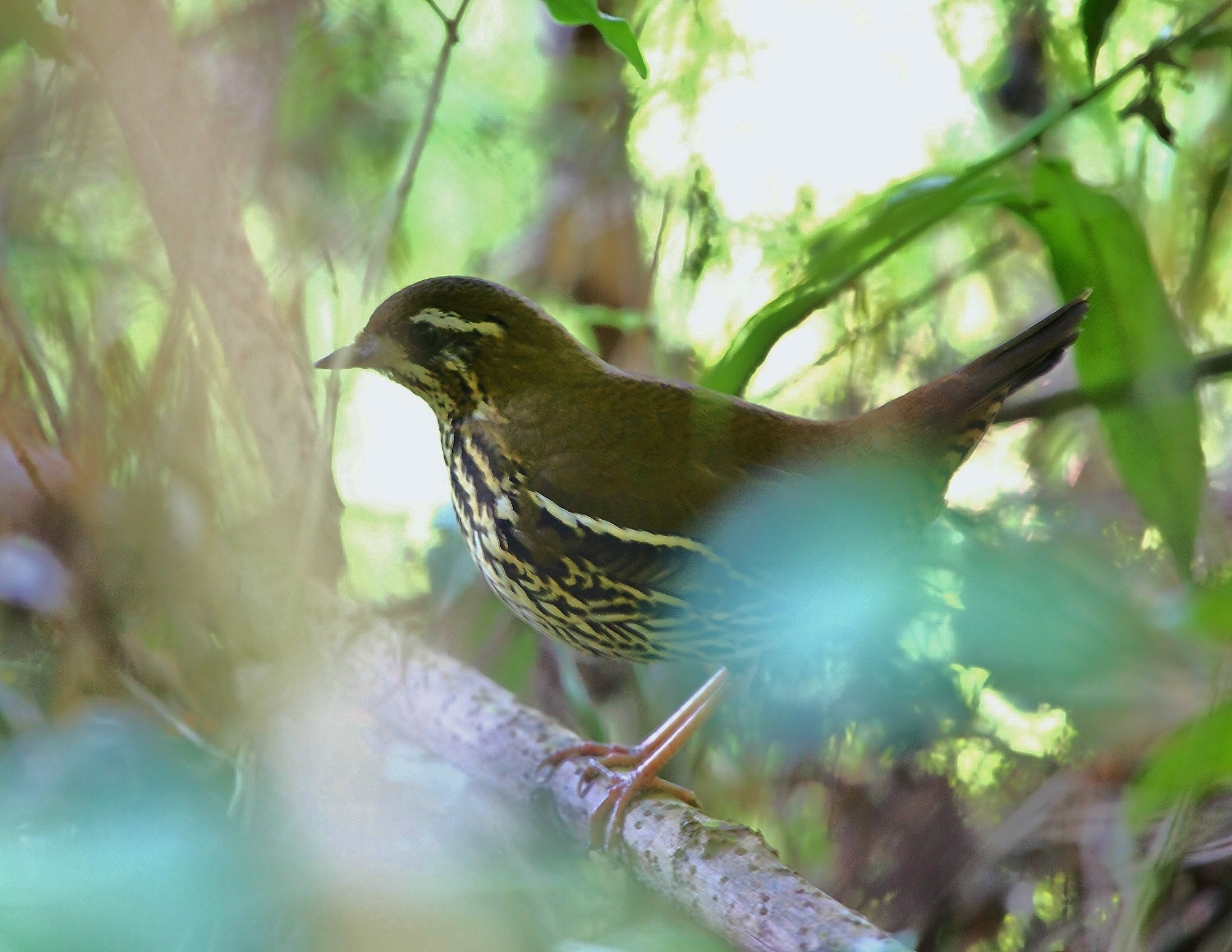 Rufous-tailed anttrush at Campos do Jordao - SP - Brazil